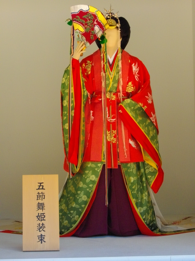 Gosechi no Mai-Hime Shozoku (Special Costume for the Five Stanzas dance)